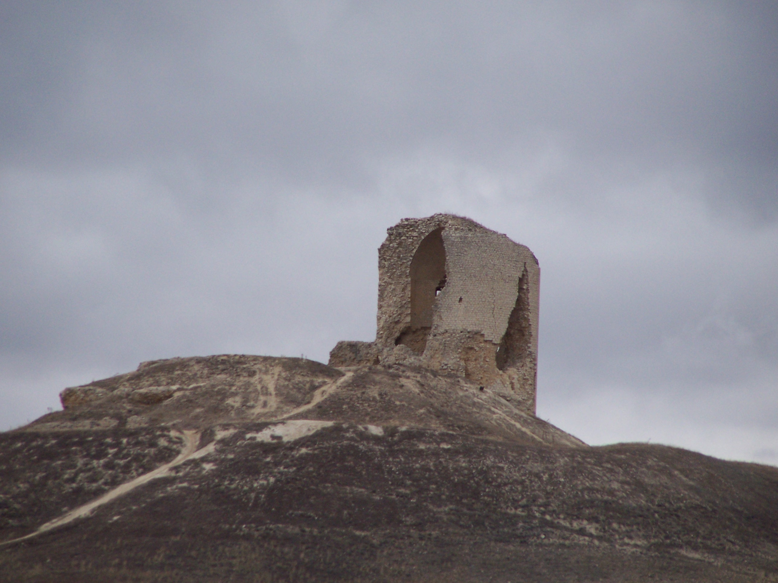 Castle of Mota del Marqués, Mota del Marqués, Valladolid, Spain.